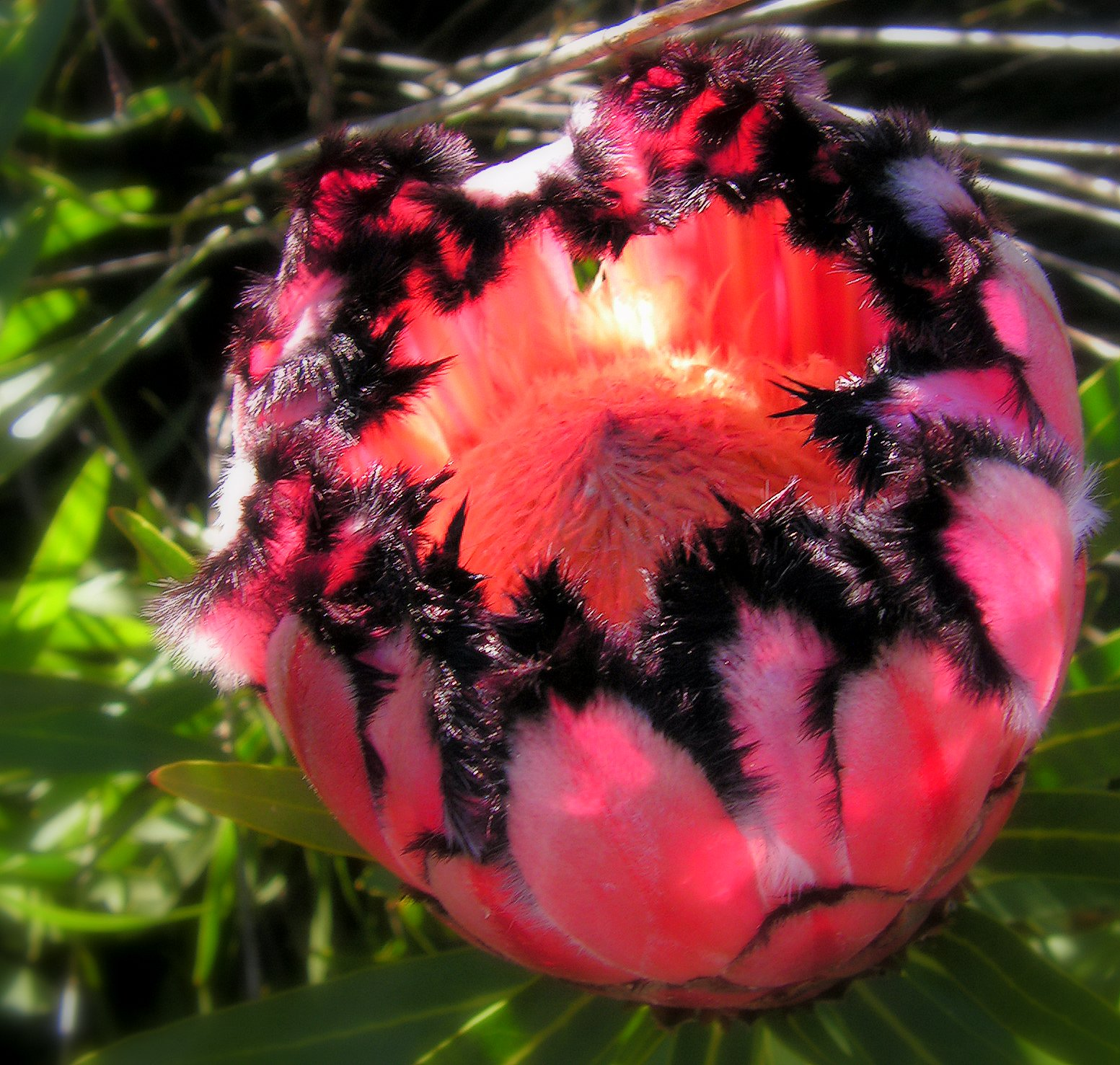 Narrow-leafed protea(Protea neriifolia)